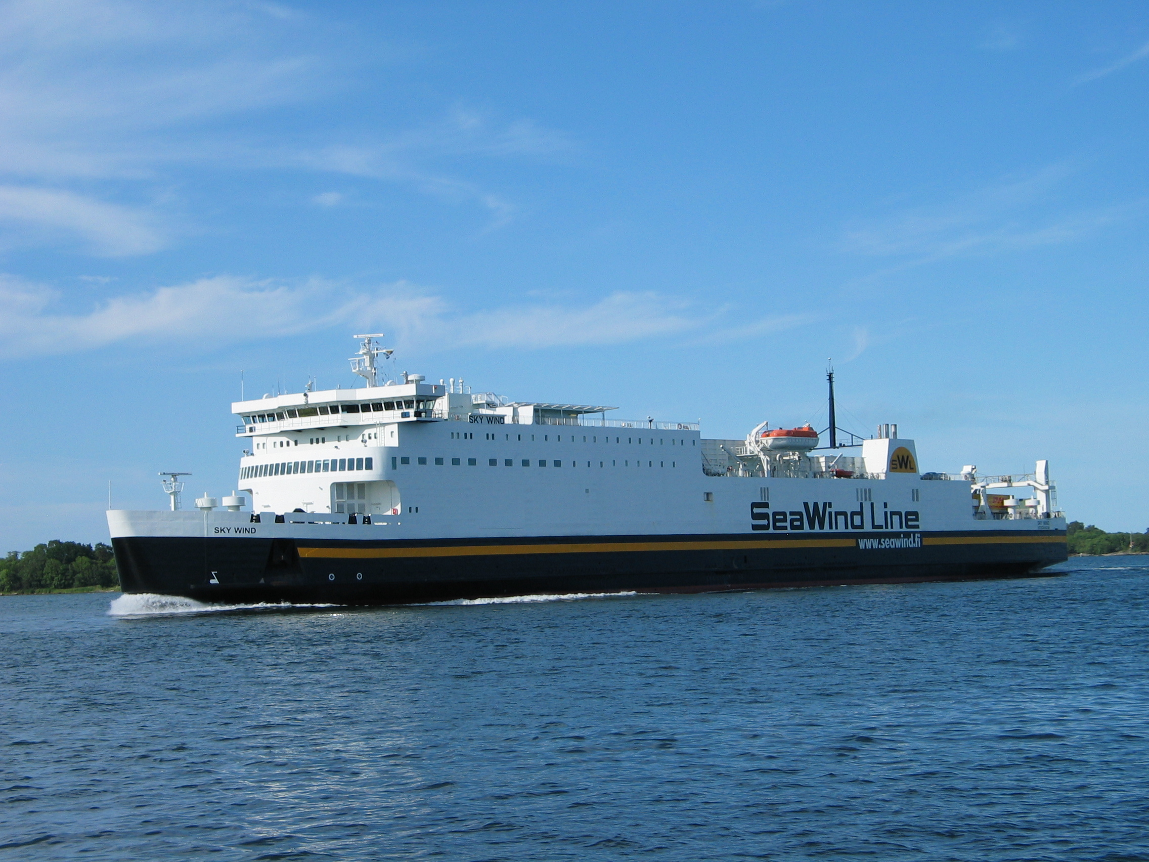 M/S Sky Wind between Yxlan and the main land, photo taken in Sweden. Owned by the Polish Unity Line. Passengers: 370 Year Built: 1986 Passenger cars: 55 Length: 188.9 m Width: 23.73 m Max speed: 17.5 kn Ice class: 1B IMO number: 8420842